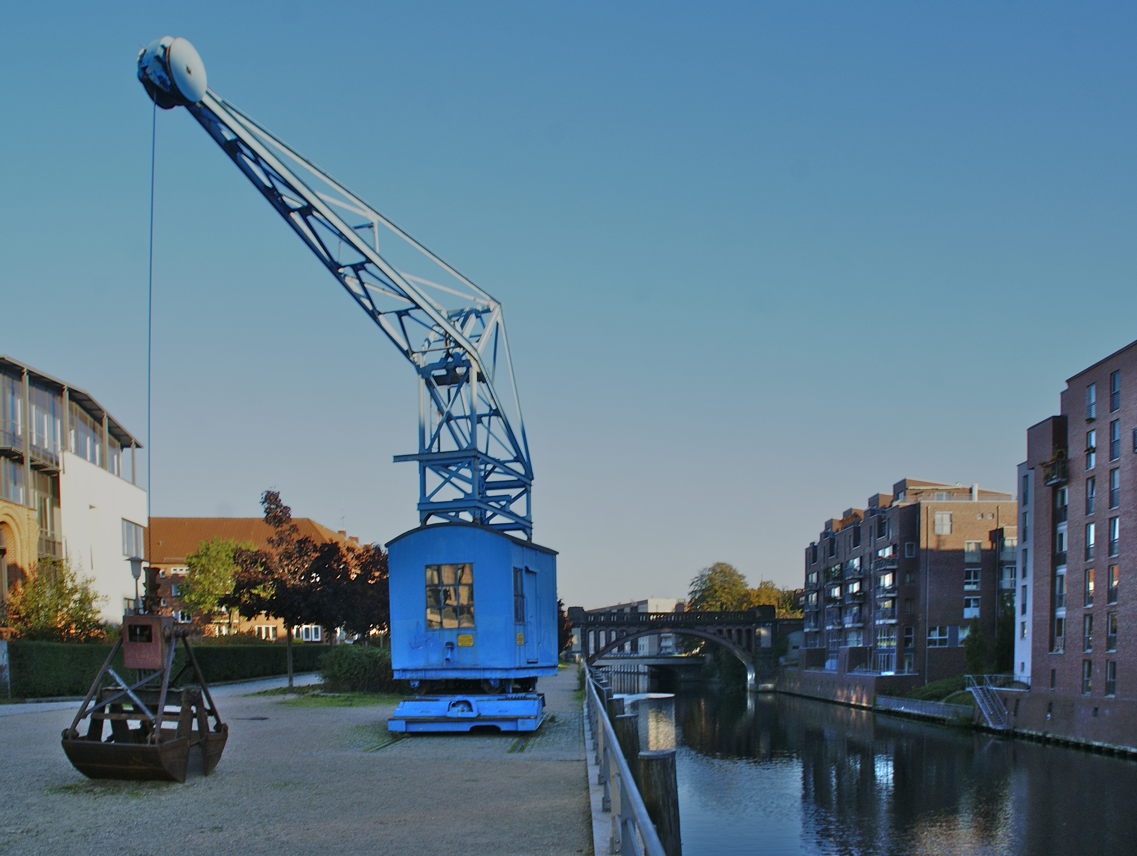 Hamburg (Germany): The river Osterbek on the square Bert-Kaempfert-Platz